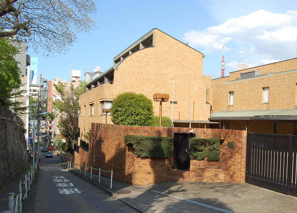 Embassy of Austria, Tokyo - 1-1-20 Moto Azabu, Minato-ku, Tokyo 106-0046